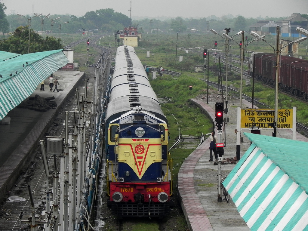 MLDT based WDM-2B loco - 17670 is pulling into platform number - 04 at New Jalpaiguri (NJP) station yard with 55714 (BNGN-NJP) Passenger at its tow !!